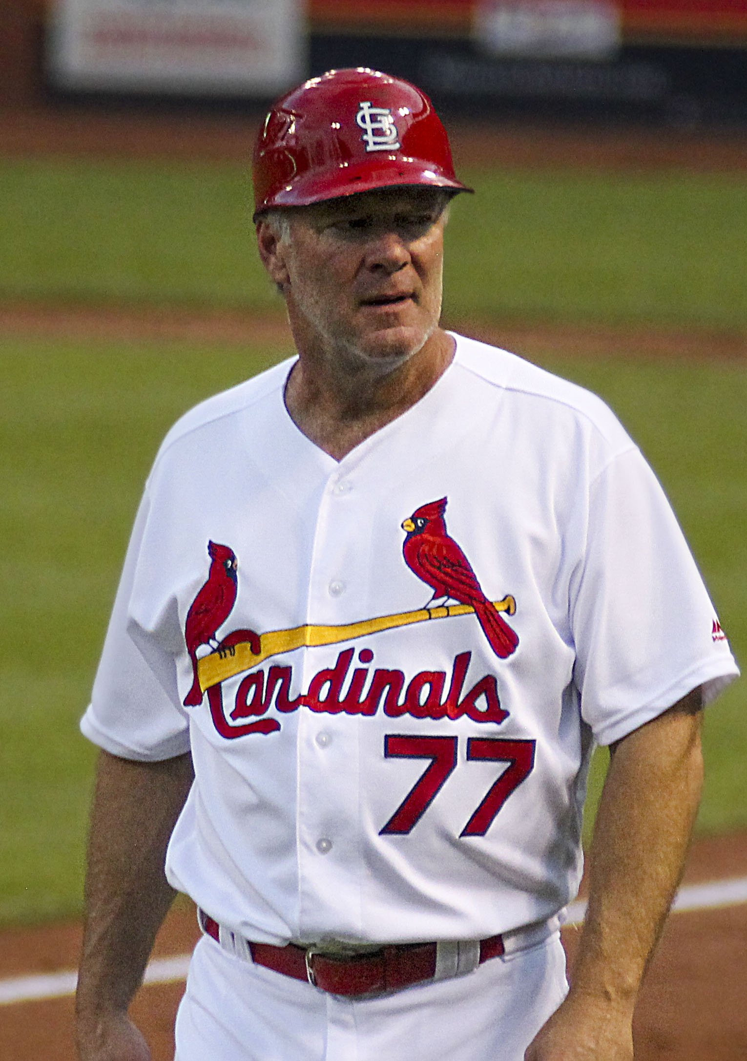 Cardinals third base coach Chris Maloney. 2016